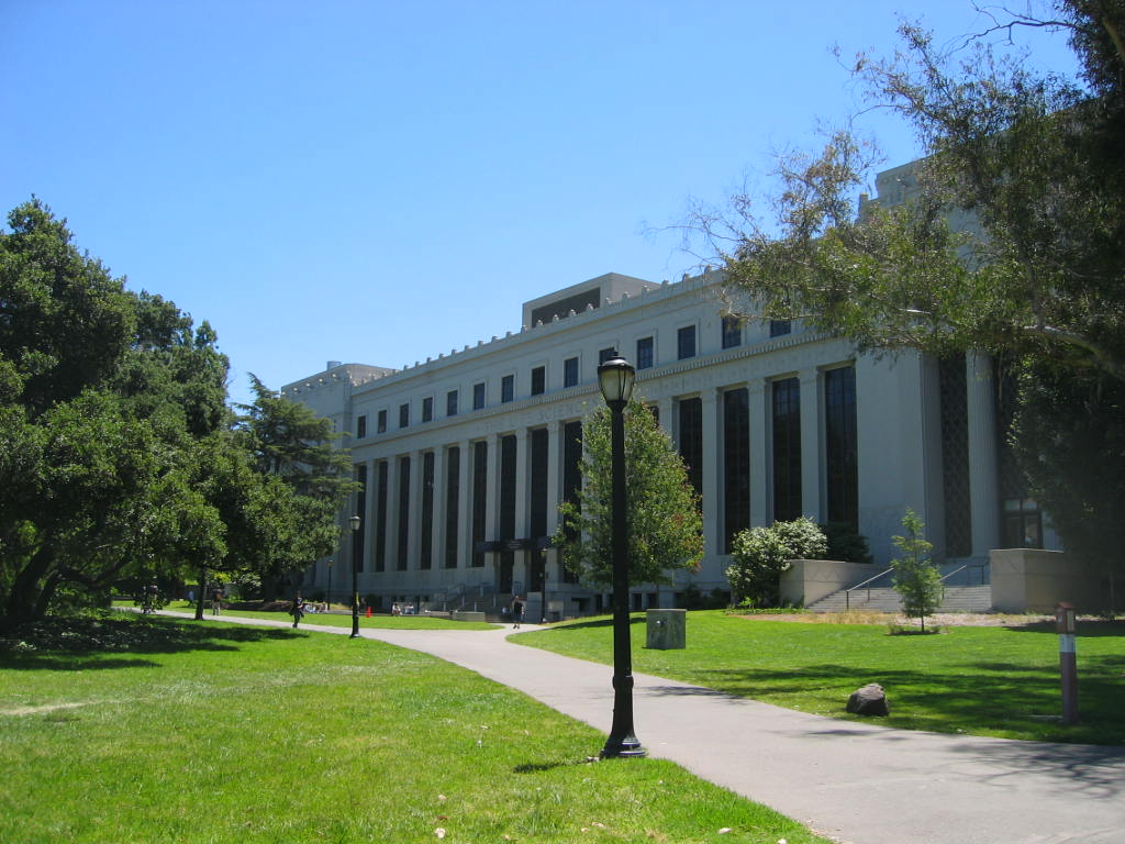 Valley Life Sciences Building at the University of California, Berkeley.